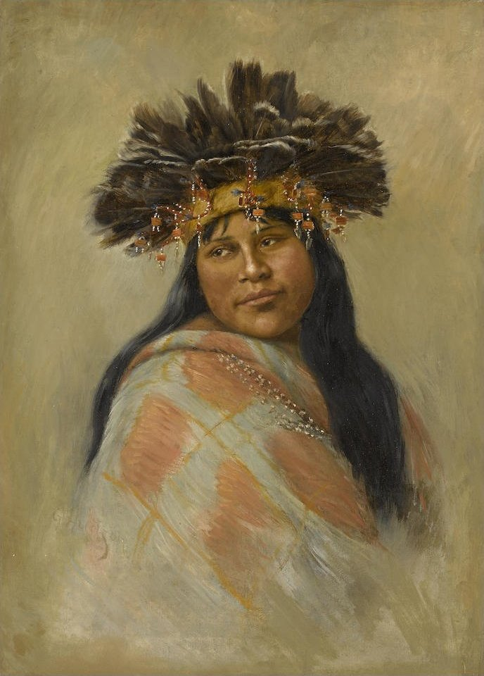 A Pomo Dancer (Kal-si-wa, Rosa Peters) by Grace Hudson, 23.75 x 17.5 in, oil on canvas